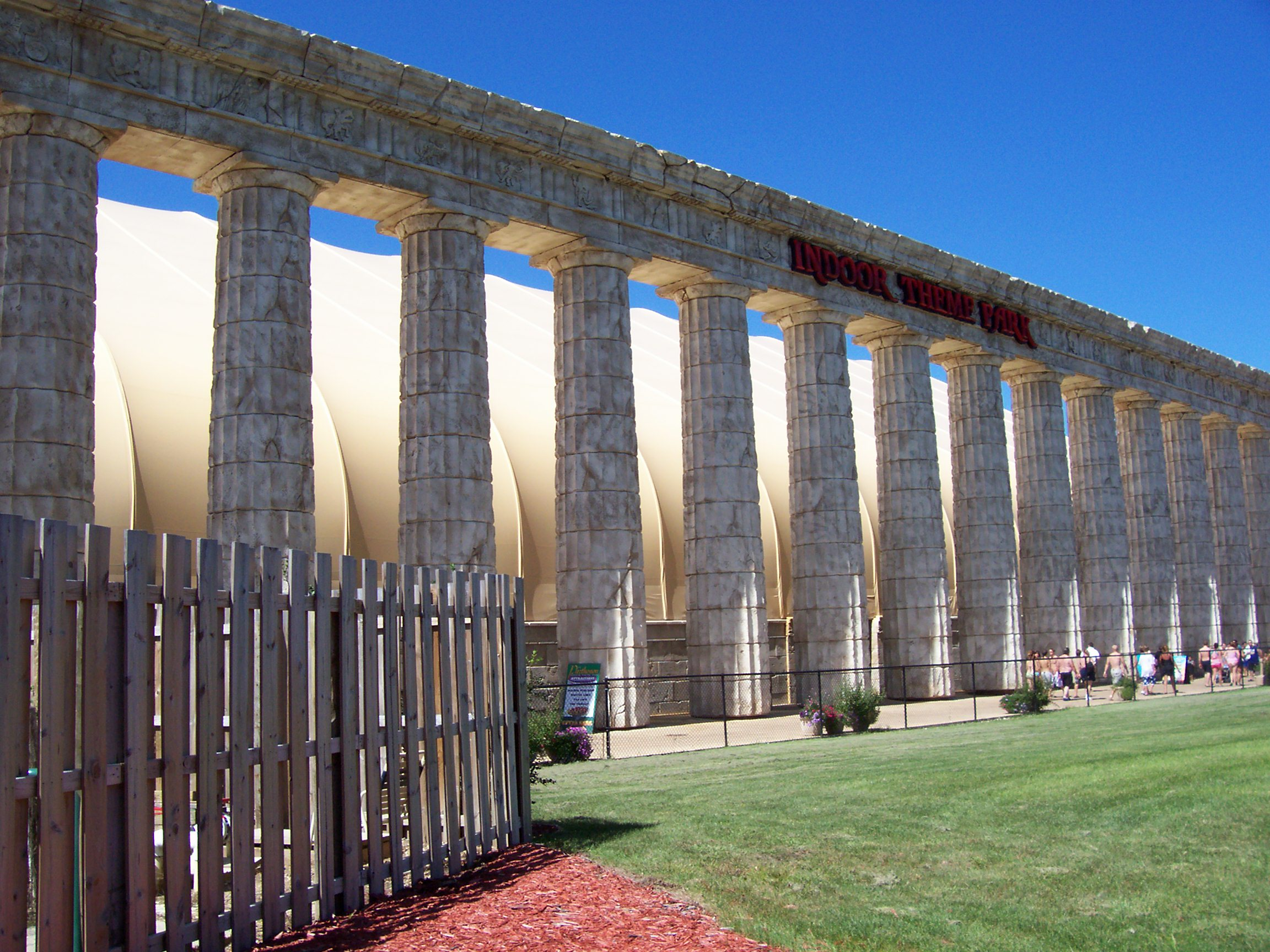 The Parthenon indoor water park at Mt. Olympus Water & Theme Park in Wisconsin Dells, Wisconsin, USA. Taken September 2, 2007 by myself.